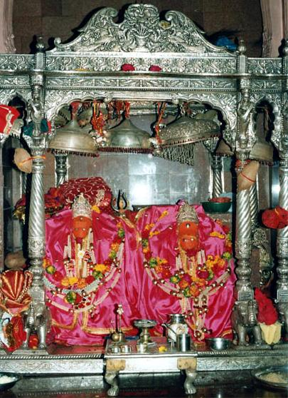 Pakaur Temple